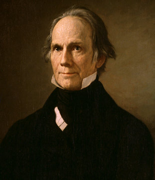 Portrait of Henry Clay